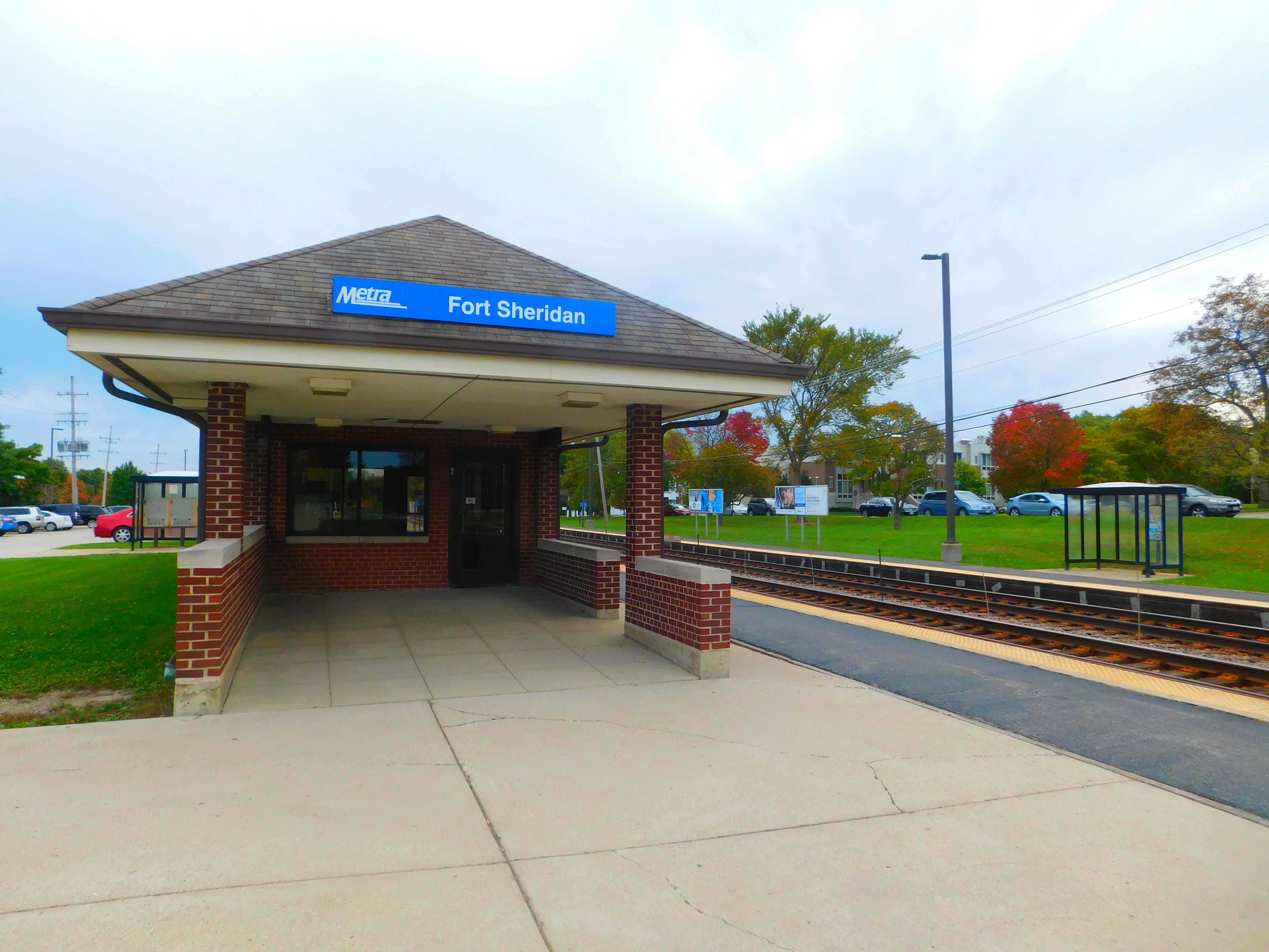 Fort Sheridan station for Metra in the town of Fort Sheridan, Illinois.